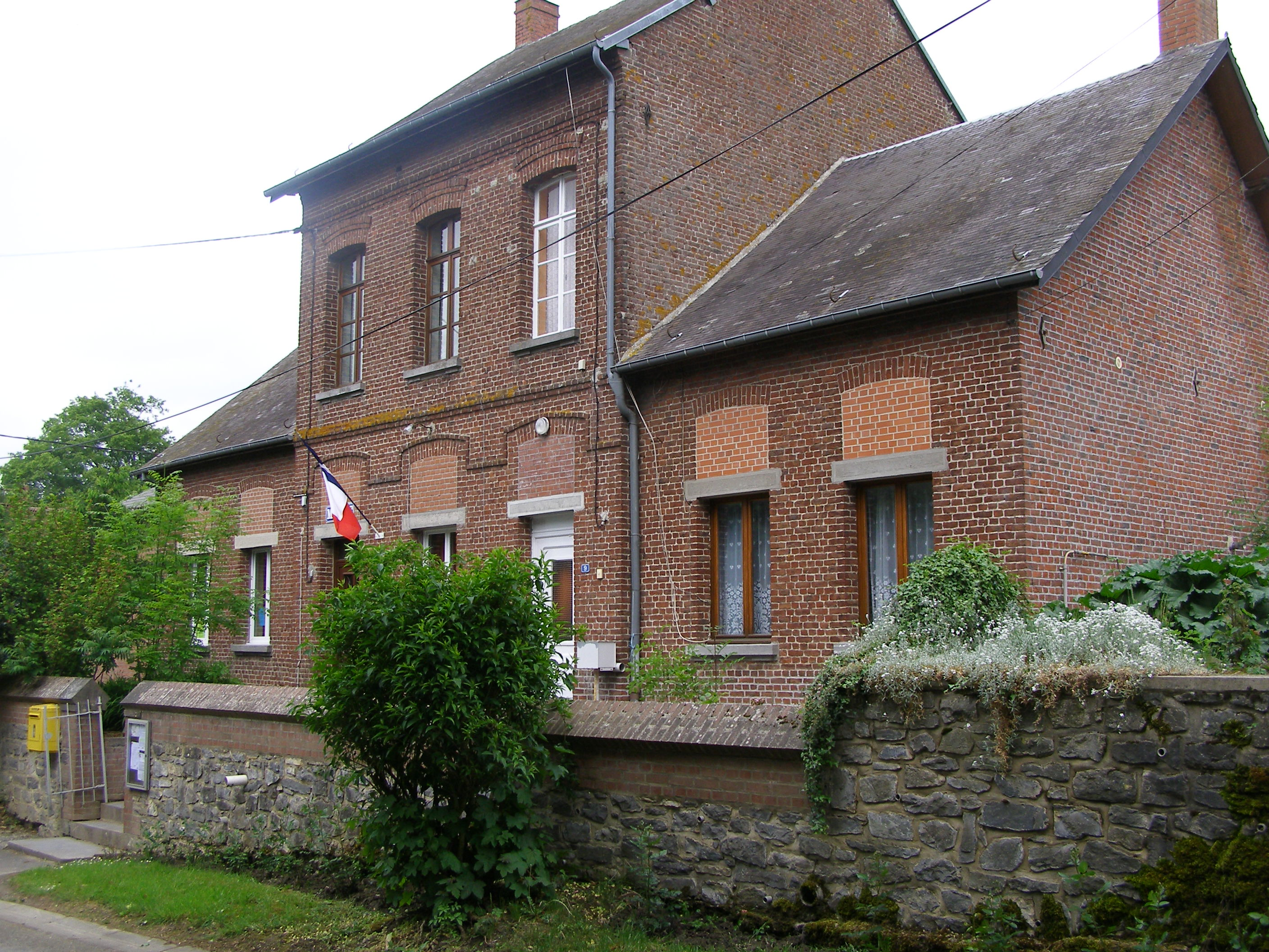 Town hall of Choisies.